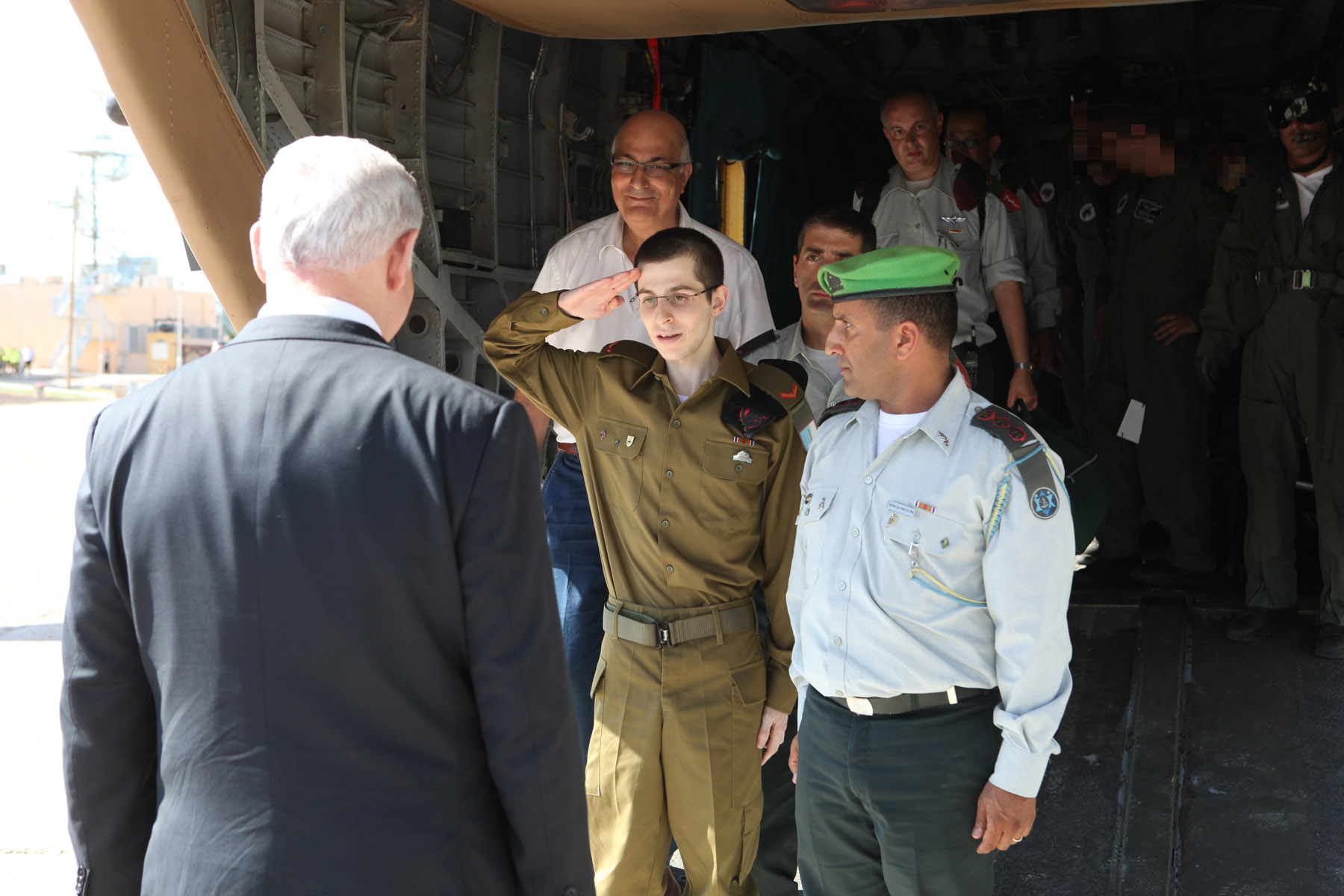 Gilad Shalit salutes Israel Prime Minister Benjamin Netanyahu after landing in IDF airbase in the center of Israel. Gilad Shalit was released today (18-10-11) form hamas captivity, after 5 and a half years. Sergeant First Class Gilad Shalit was released today after more than five years in Hamas captivity. While holding Sgt. 1st Class Shalit in captivity, the Hamas organization denied repeated requests by the Red Cross in Gaza to monitor his condition and limited contact with him to only letters and video tapes. On October 18, 2011, the Shalit family was reunited with Sgt. 1st Class Shalit. Sgt. 1st Class Shalit was 19 years old at the time of his abduction. He is the son of Aviva and Noam Shalit and the brother of Yoel and Hadas. Sgt. 1st Class Shalit excels in math, graduating with distinction from the science class of Manor Kabri High School. He is also a major sports fan, with a passion for playing basketball. Gilad Shalit (rank at the time: Cpl.) was kidnapped early on Sunday June 25, 2006. A militiant group attacked Shalit’s tank that was defending the security fence near the southern Gaza Strip. The militiants crossed the border using an underground tunnel dug near the Kerem Shalom crossing. During the attack, the tank commander, First Lt. Hanan Barak, and another soldier in the tank, Staff Sgt. Pavel Slotzker were killed. Four of the soldiers in the post were injured and militiants kidnapped Shalit into the Gaza Strip, using the tunnel they dug. In response to the kidnapping, the IDF began Operation Summer Rains in the Gaza Strip on June 28, 2006 and lasted through November 26, 2006. Ground forces entered the Gaza Strip for the first time since the unilateral disengagement was executed.